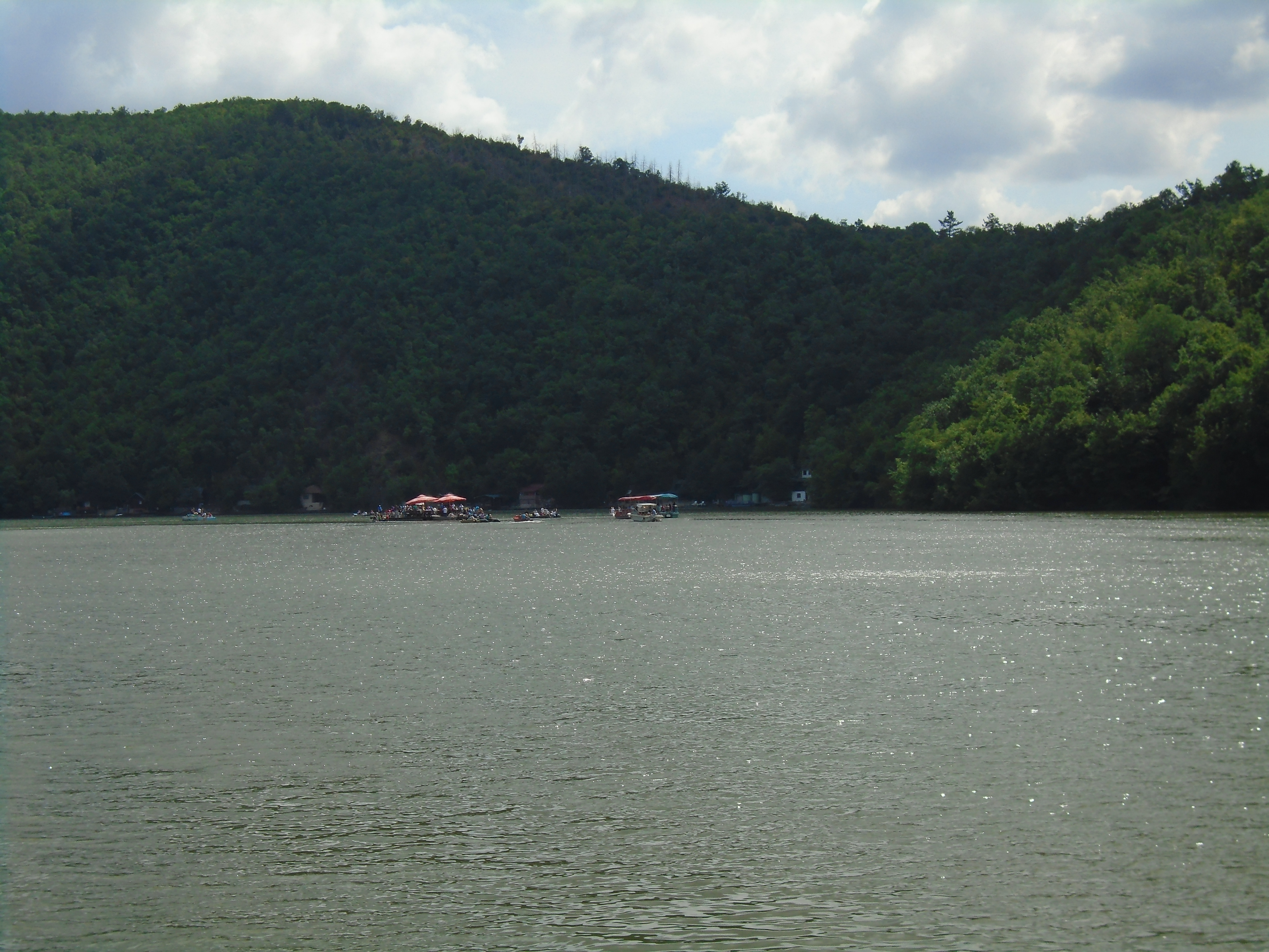 Ovčar-Kablar regatta, Lake Medjuvršje, Serbia, 2017.